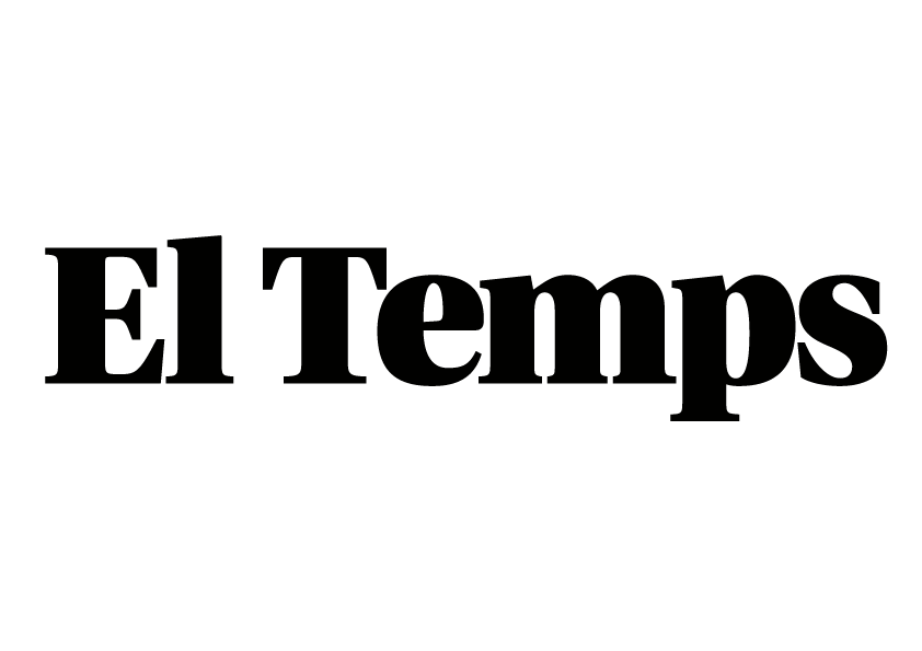 El Temps wordmark